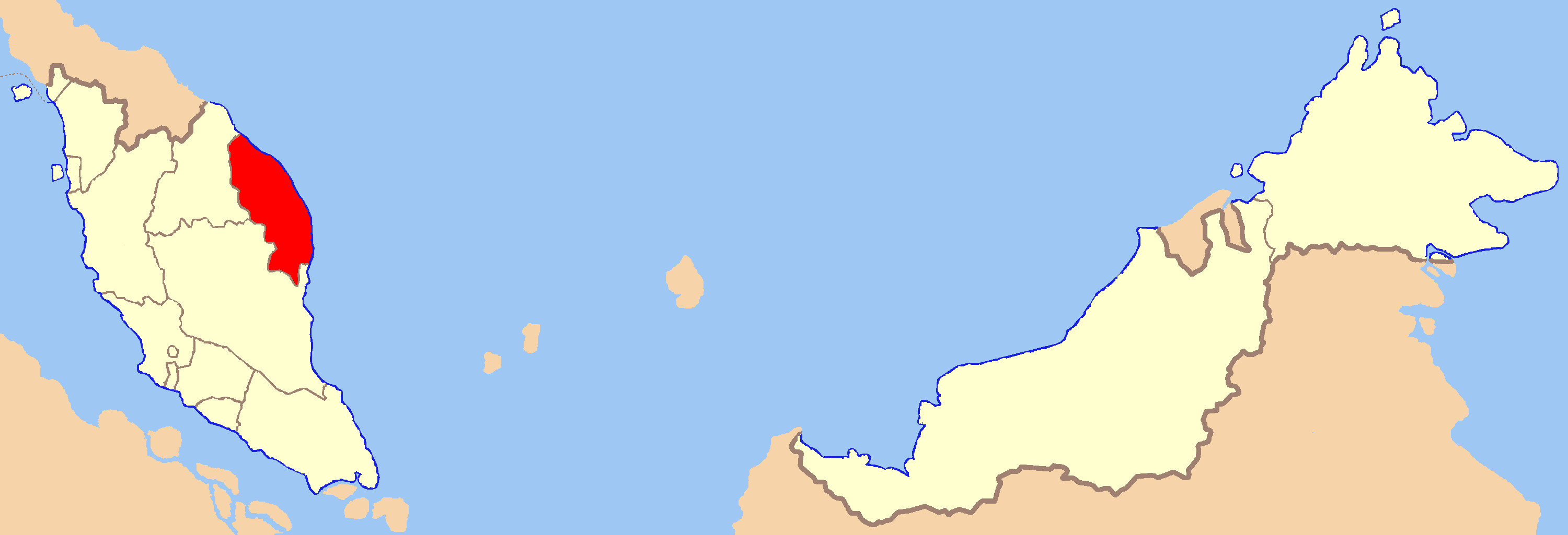 Map of Malaysia with Terengganu highlighted